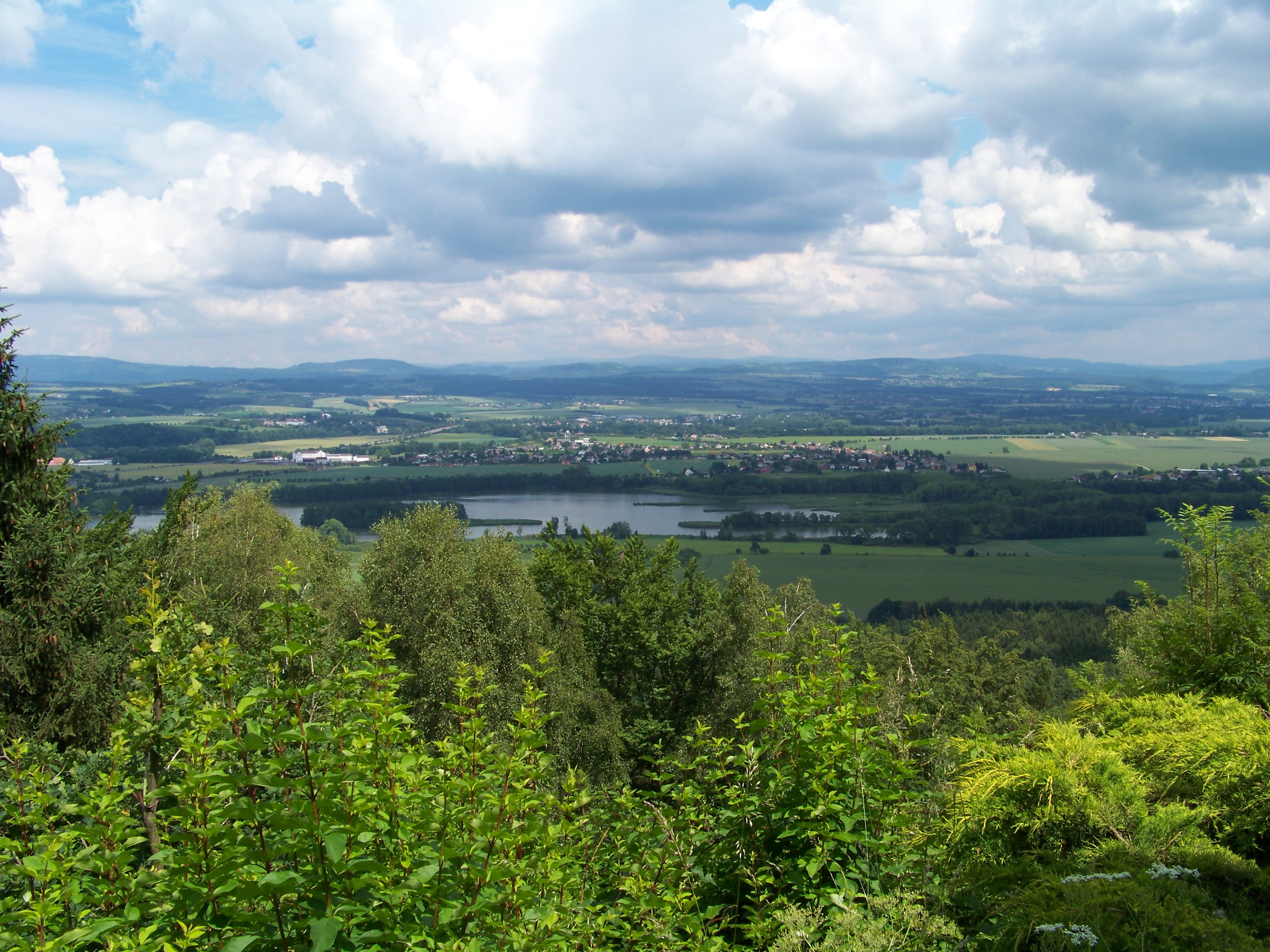 Žabakor Pond and Doubrava, Mladá Boleslav District, Central Bohemian Region, the Czech Republic. A view from restaurant and pension "Na Krásné vyhlídce".